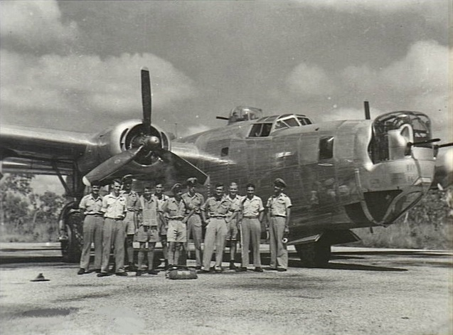 AWM caption : Fenton, NT. 1945-03. An informal group portrait of a crew of a Consolidated B-24 Liberator bomber aircraft of No. 21 Squadron RAAF, standing beside their aircraft. Left to right: Flight Sergeant (Flt Sgt) P. Rousseau of Darling Point, NSW Flt Sgt D. W. Johnston of Kogarah, NSW Flying Officer (FO) H. A. Seymour of Coogee, NSW Sergeant (Sgt) F. A. Dean of Brighton, Vic Flt Sgt W. C. Randall of North Sydney FO C. L. Henry of Ivanhoe, Vic Pilot Officer R. W. Brooks of Coogee, NSW Flt Sgt R. W. McLeod of Northcote, Vic Flt Sgt W. H. Storey of Bexley, NSW Sgt R. H. Brown of Allora, Qld Flight Lieutenant R. W. Court of Collaroy, NSW